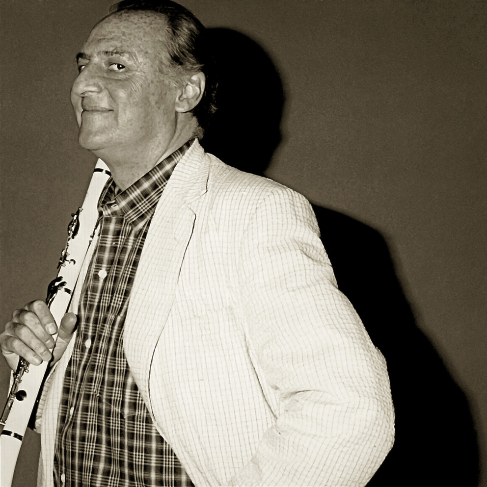 Portrait of Renzo Arbore